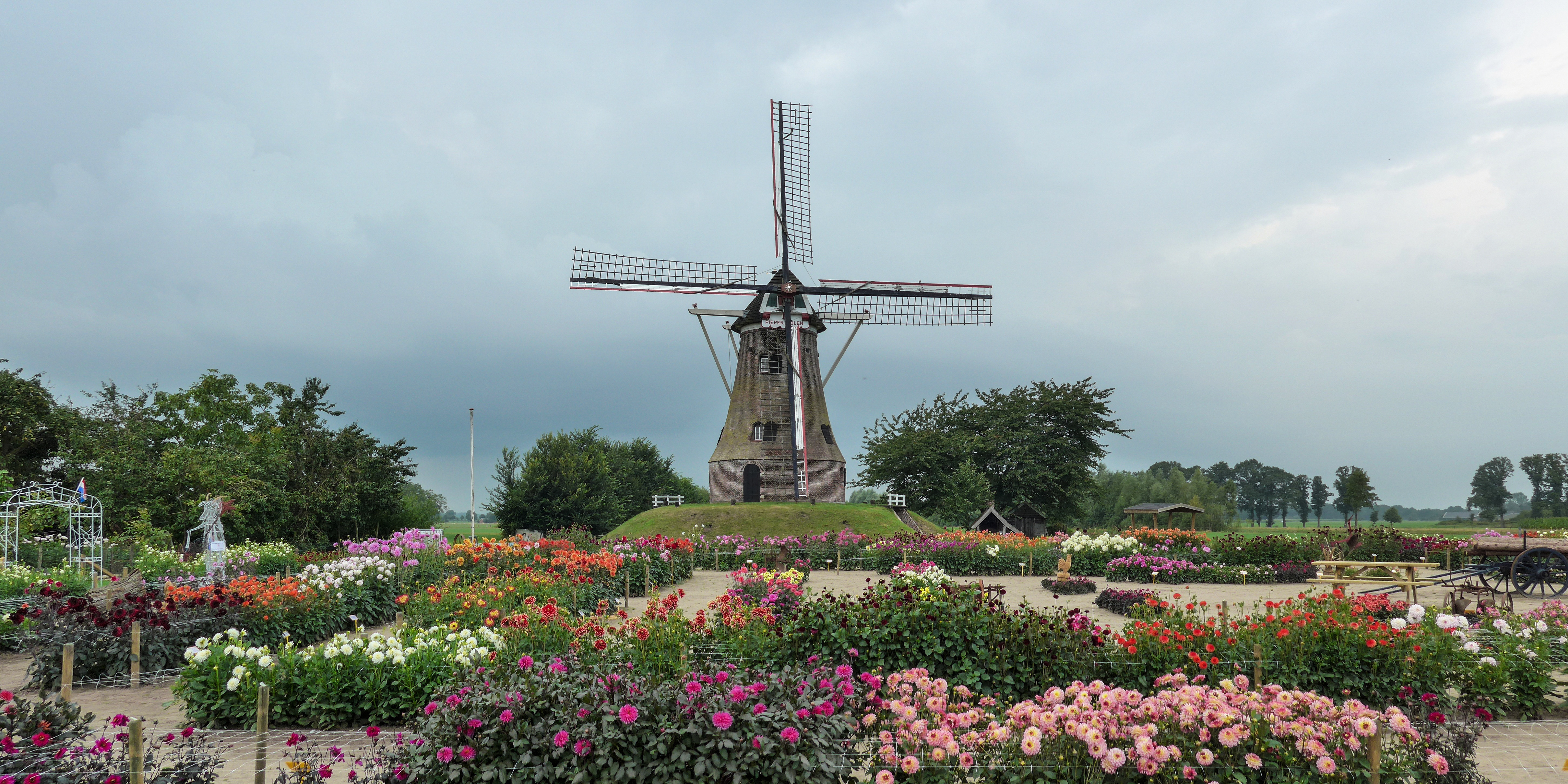 De Piepermolen, a windmill in Rekken, a village in the Dutch province of Gelderland.